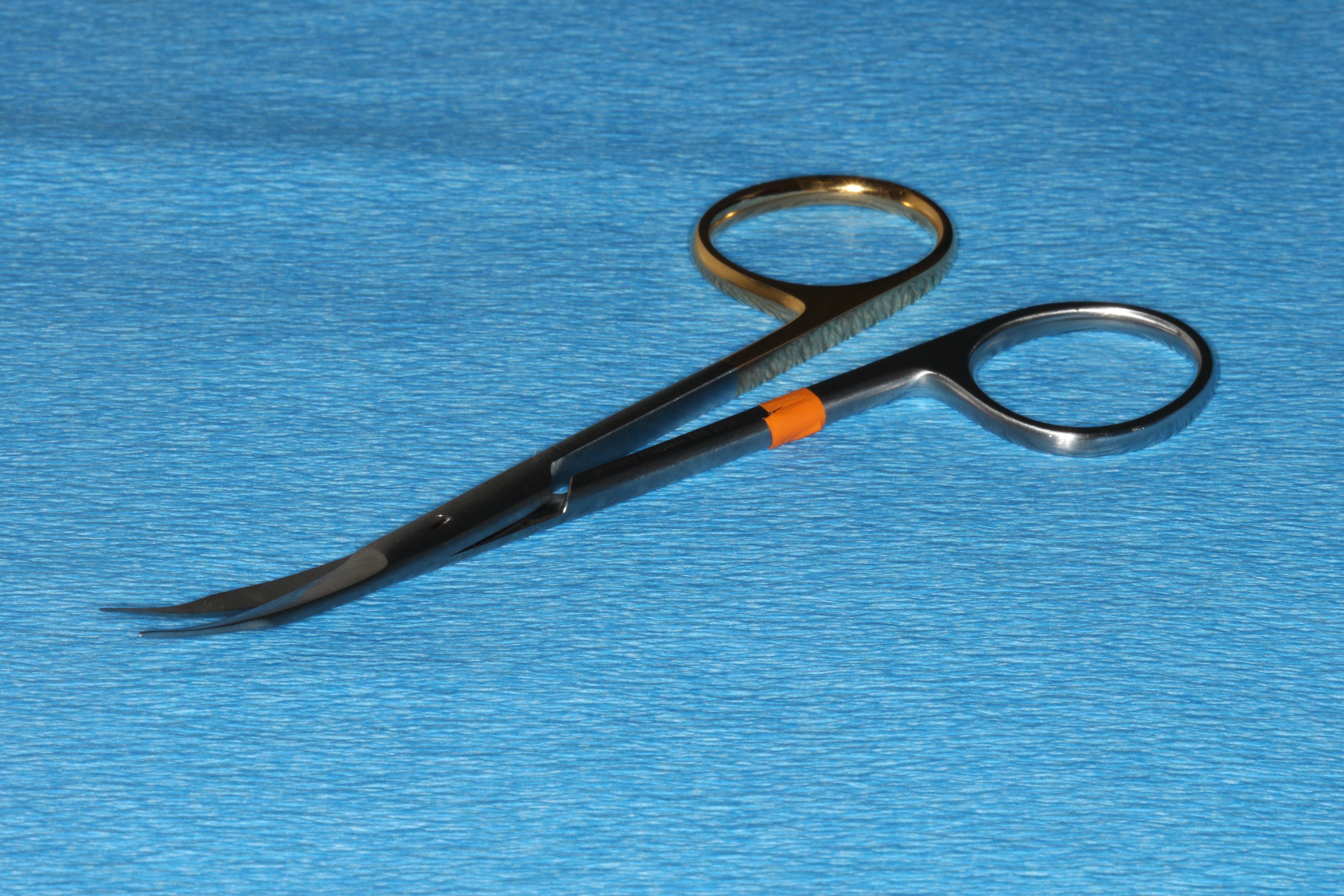 picture of surgical tenotomy scissors showing curve